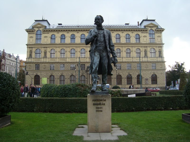 Statue of Antonín Dvořák in front of Rudolfinum in Prague, Czech Republic.